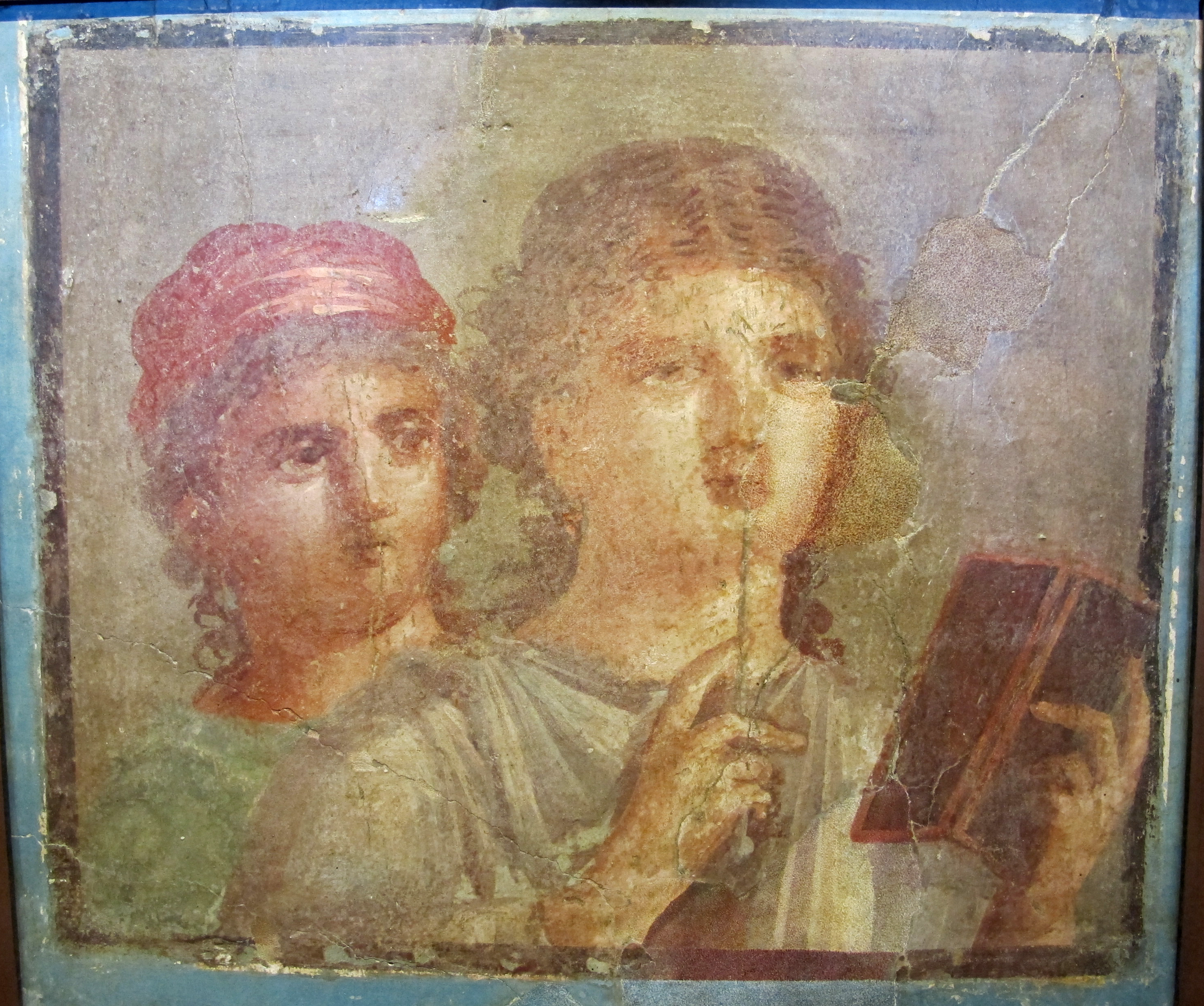 Ancient Libraries Exhibition (Colosseum, 2014)